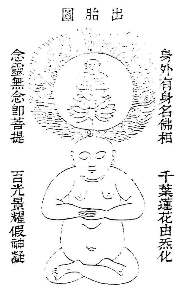 Illustration to chapter 5 of Liu Huayang's "Book of Understanding Life"